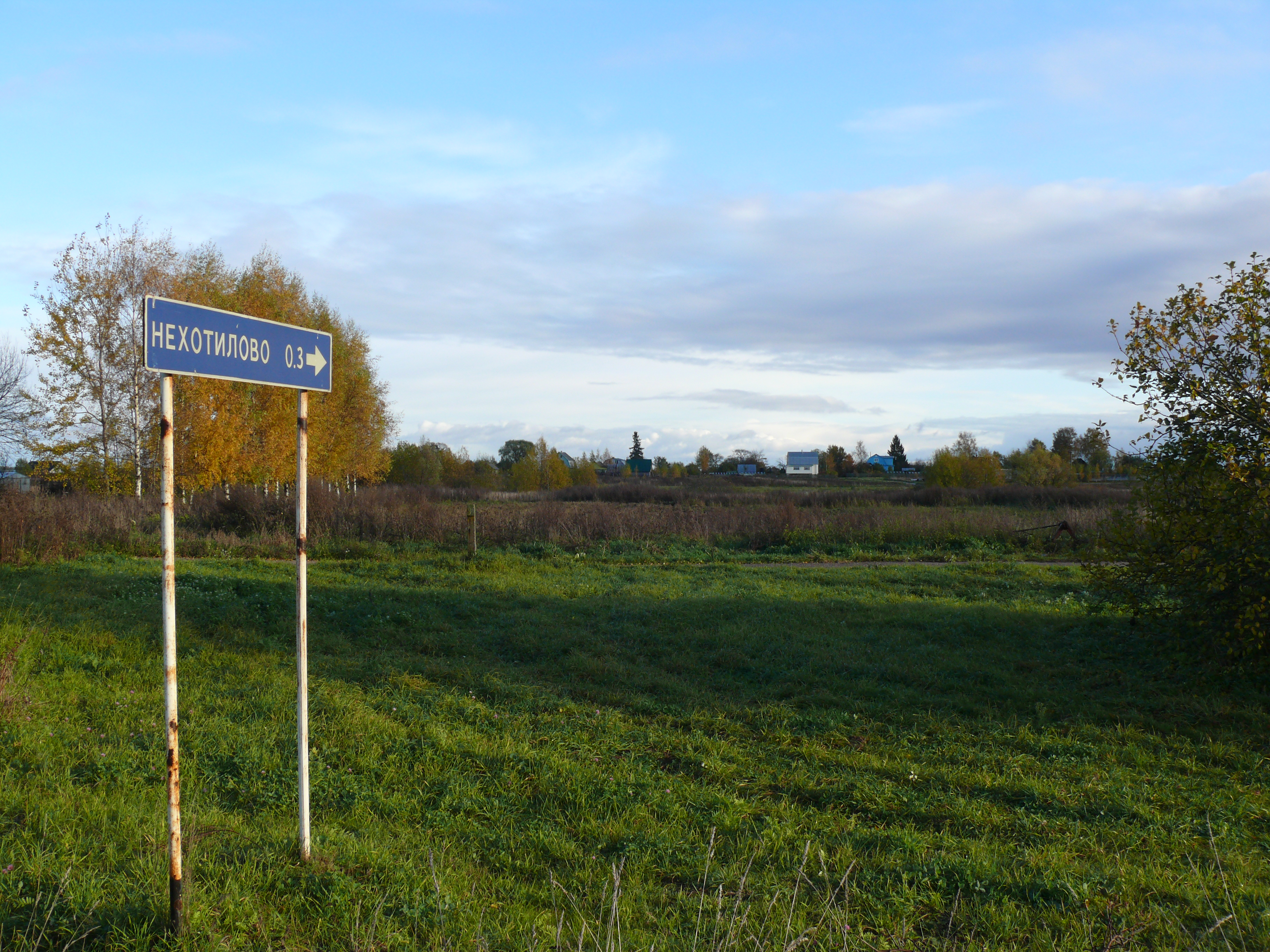 Nekhotilovo village, Novgorodsky distrikt, Novgorod oblast